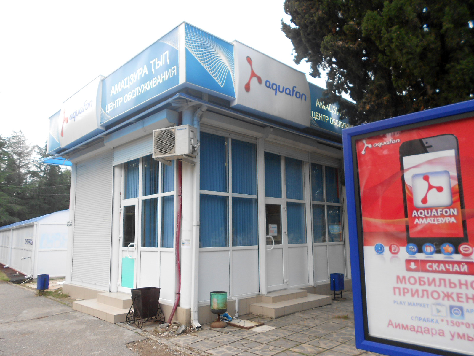 Office of Abkhazian mobile network operator Aquafon